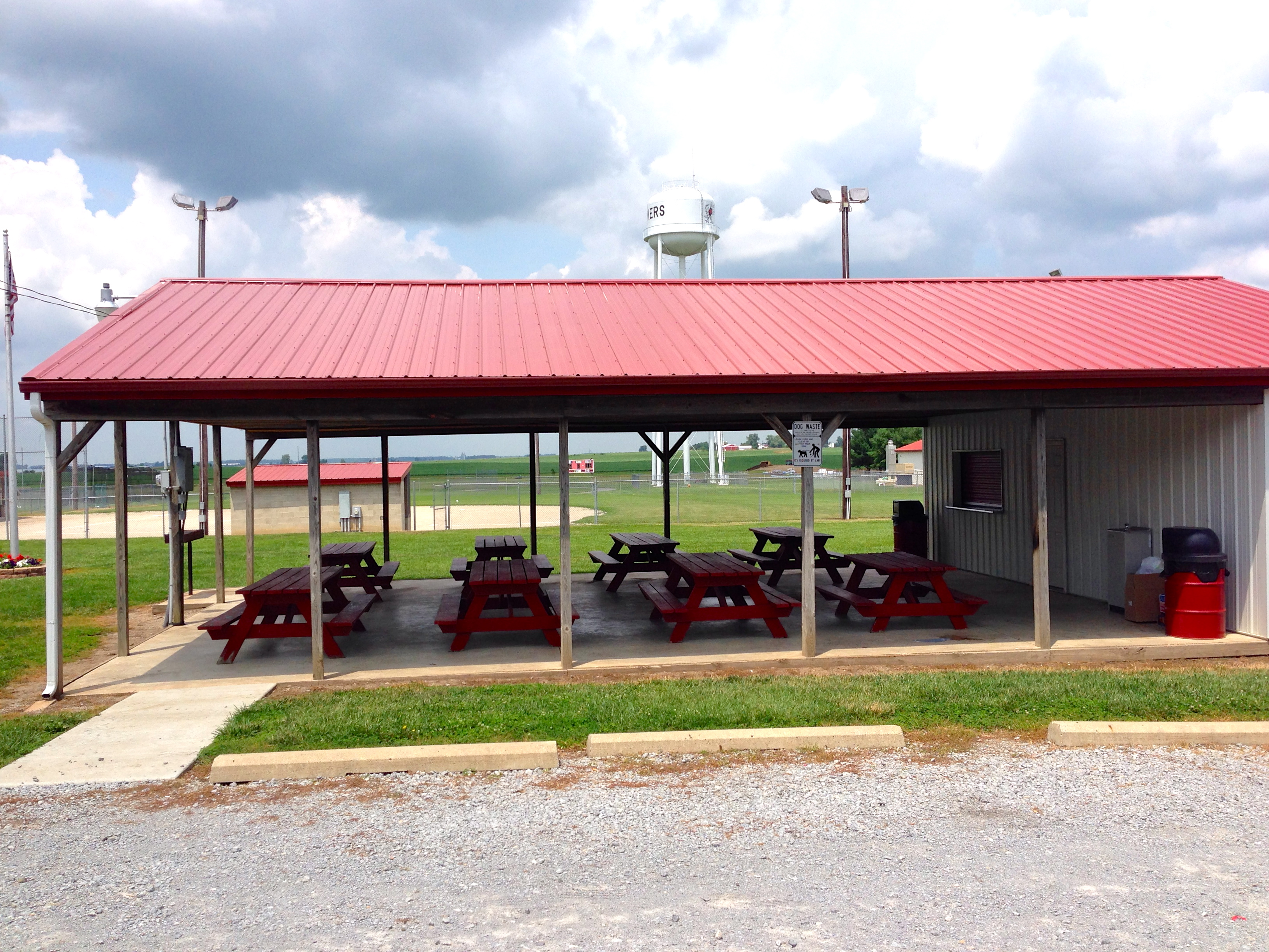 A pavilion at Chalmers Community Park.